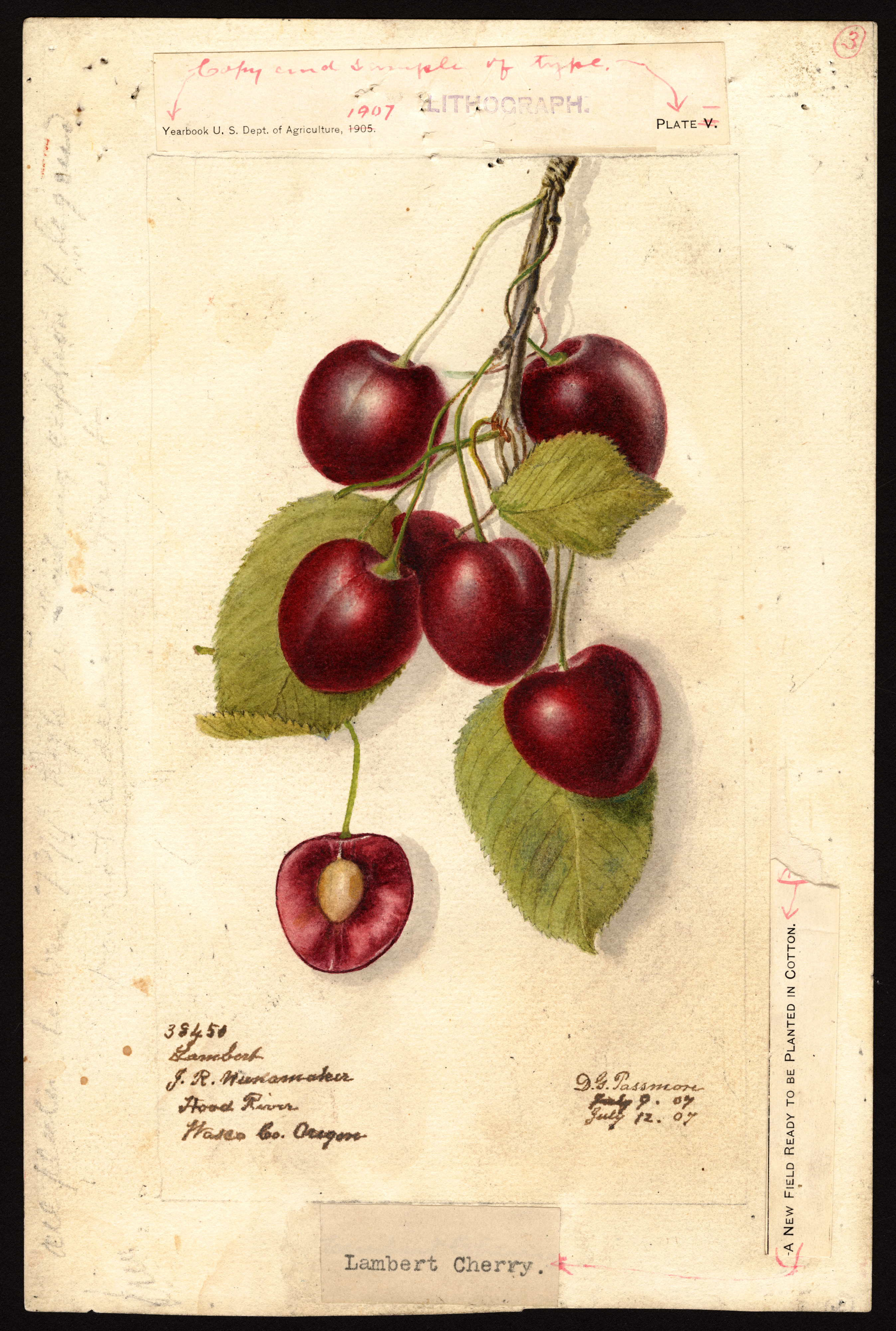 Image of the Lambert variety of cherries (scientific name: Prunus avium), with this specimen originating in Hood River, Hood River County, Oregon, United States. Source: U.S. Department of Agriculture Pomological Watercolor Collection. Rare and Special Collections, National Agricultural Library, Beltsville, MD 20705.